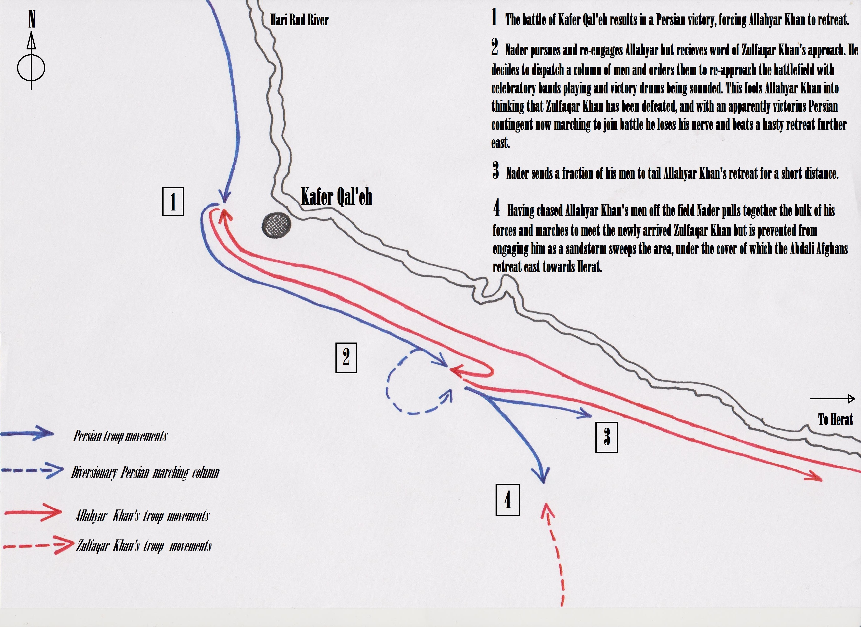 A military diagram drawn by hand and digitally edited